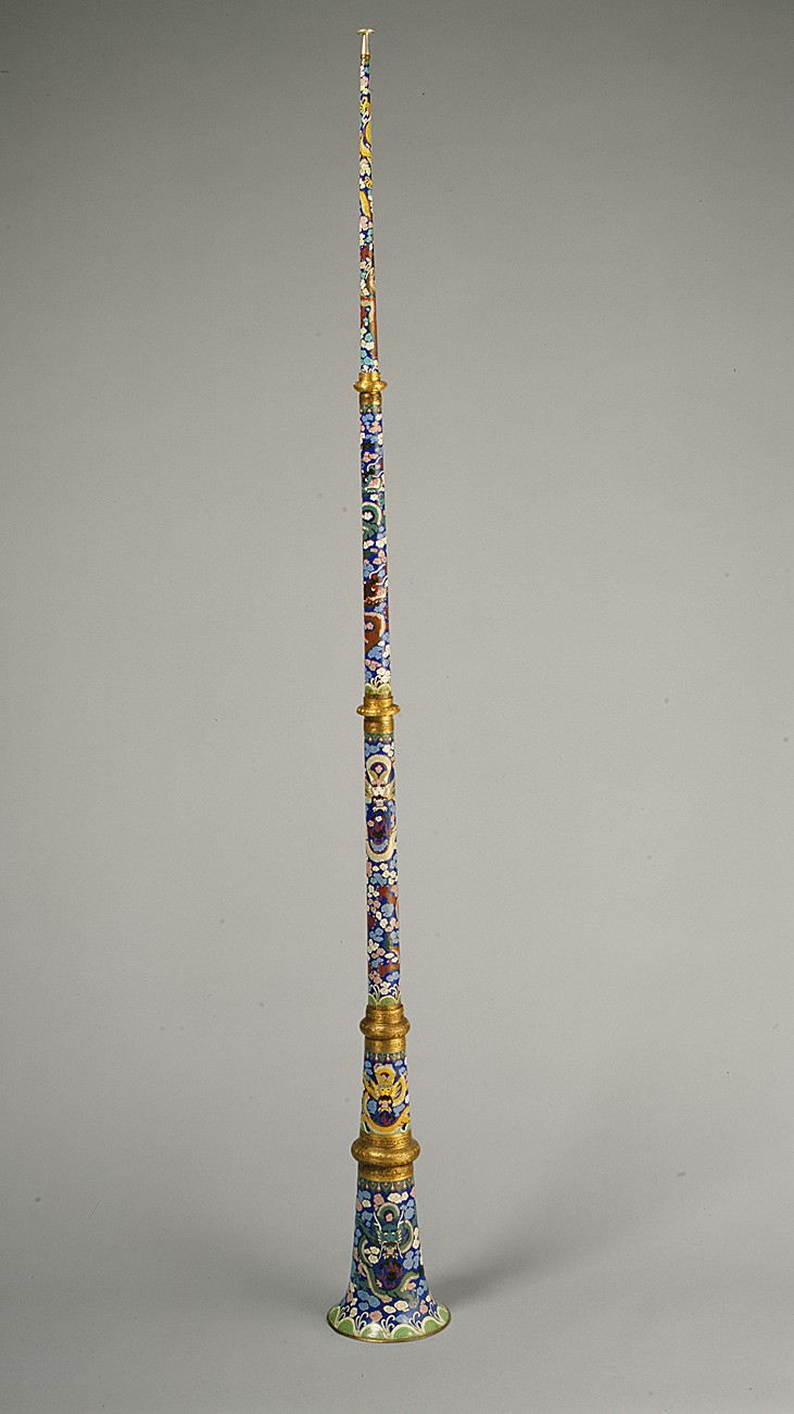 Chinese; Dung-Chen; Aerophone-Lip Vibrated-trumpet / trombone